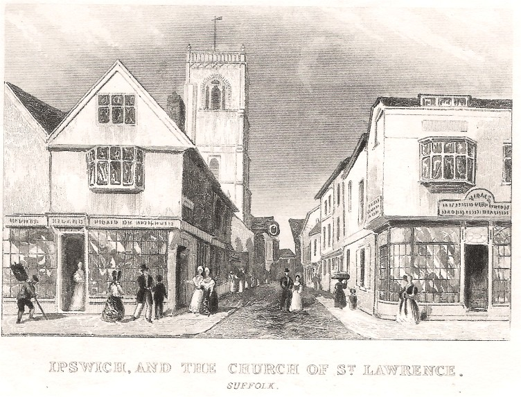 1846 view of Dial Lane, Ipswich, Suffolk